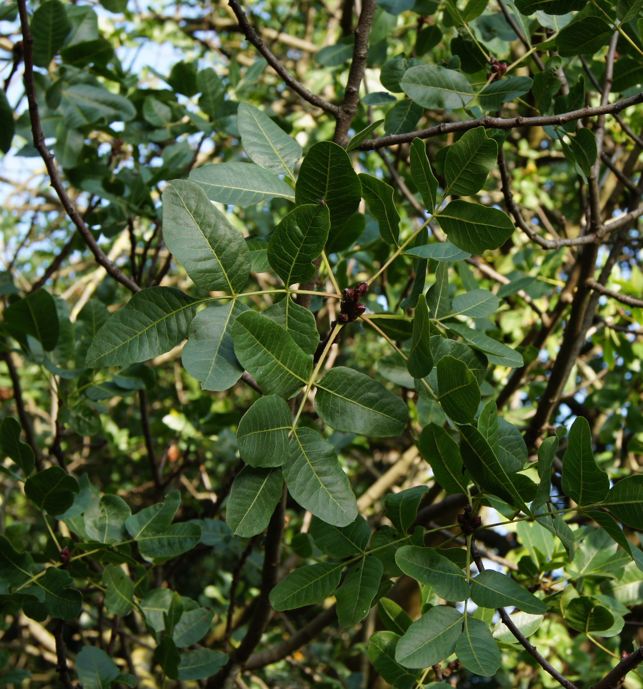 Pistacia vera L. Part of a historical tree, planted in the Jardin des Plantes (Alpine garden) in 1702. This special tree was used by Sébastien Vaillant for studying and demonstrating vegetal sexuality in 1716.